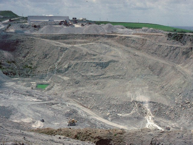 Wheal Martyn China Clay Works. Seen from a vantage point accessed from the adjacent museum